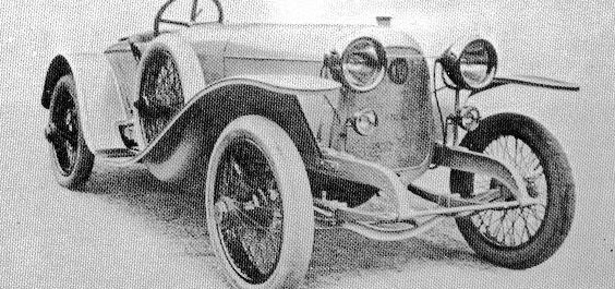 An Elizalde car, dating approximately from 1922